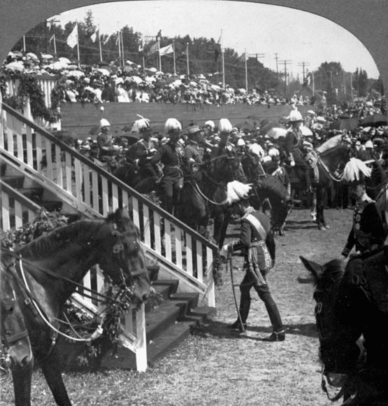 (Quebec Tercentenary) Prince of Wales, attended by Earl Grey Col. S.A. Denison, Lord Lovat, Gen. Pole-Carew and Gen. Lake at the Military Review Quebec, [P.Q.].